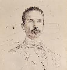 Vicenzo Marinelli (1820-1898), self portrait